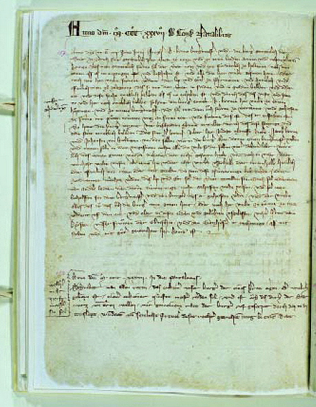 Zürich : 'Stadtbuch' (1336)